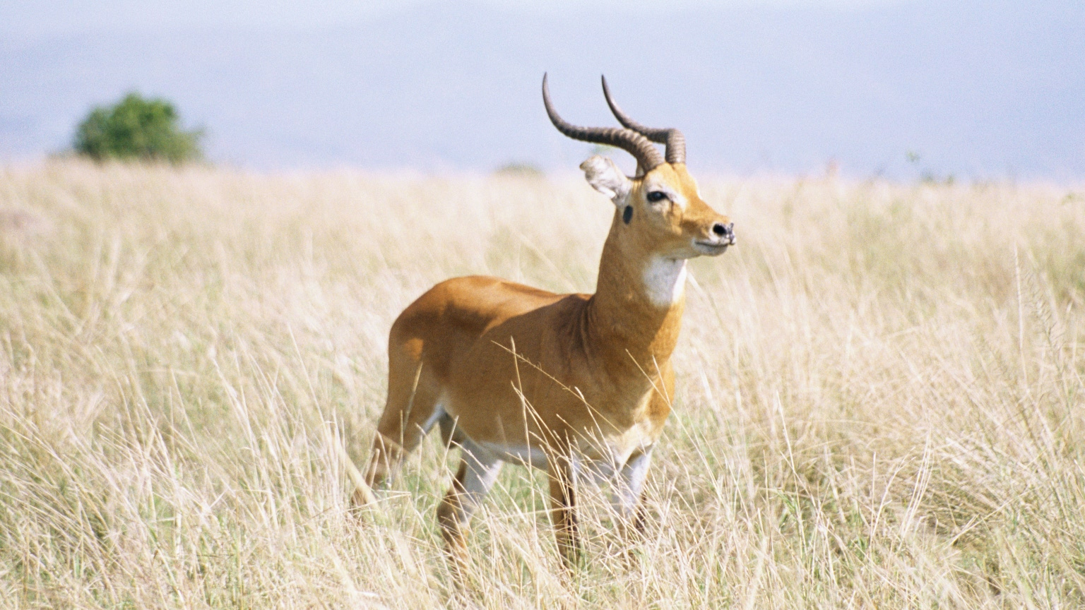 Ugandan Kob (male) in the Queen Elizabeth National Park in Uganda